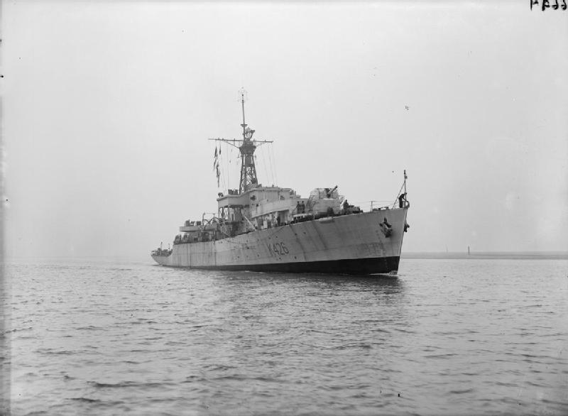 British frigate HMS LOCH ACHRAY underway, coastal waters.